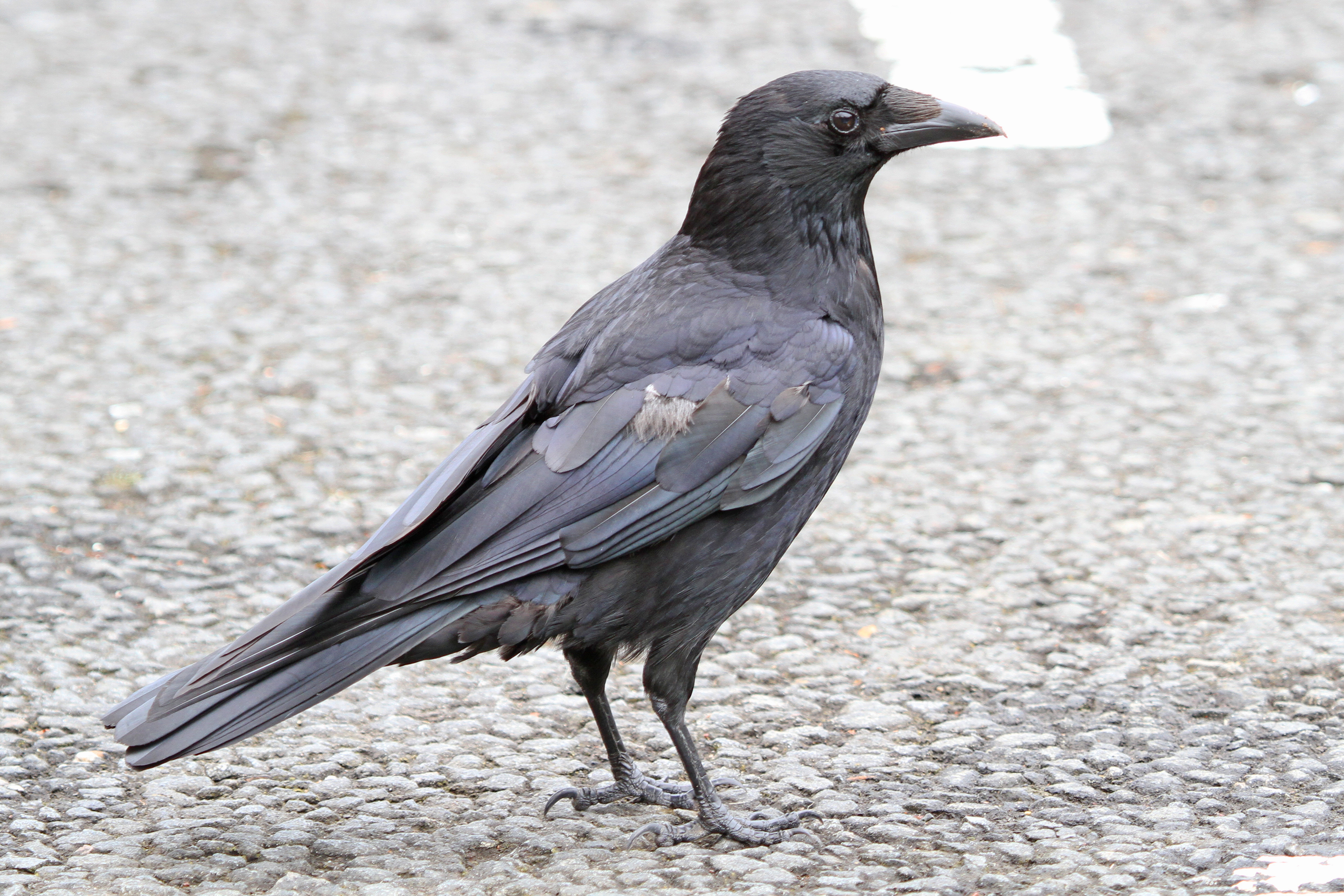 Carrion Crow - Corvus corone, Queen's View and the Whangie, Stirlingshire, Scotland.